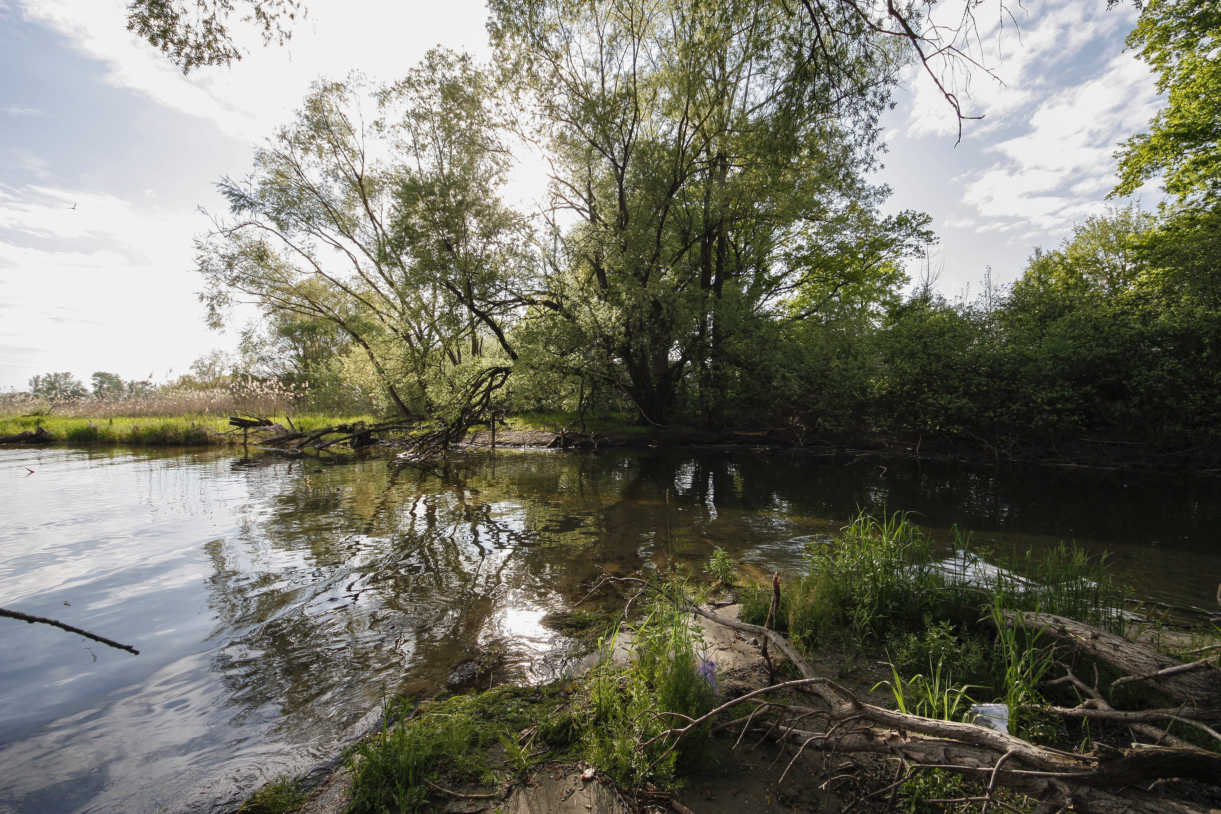 Lipbach – stream mouth close to Immenstaad (Friedrichshafen), Lake of Constance